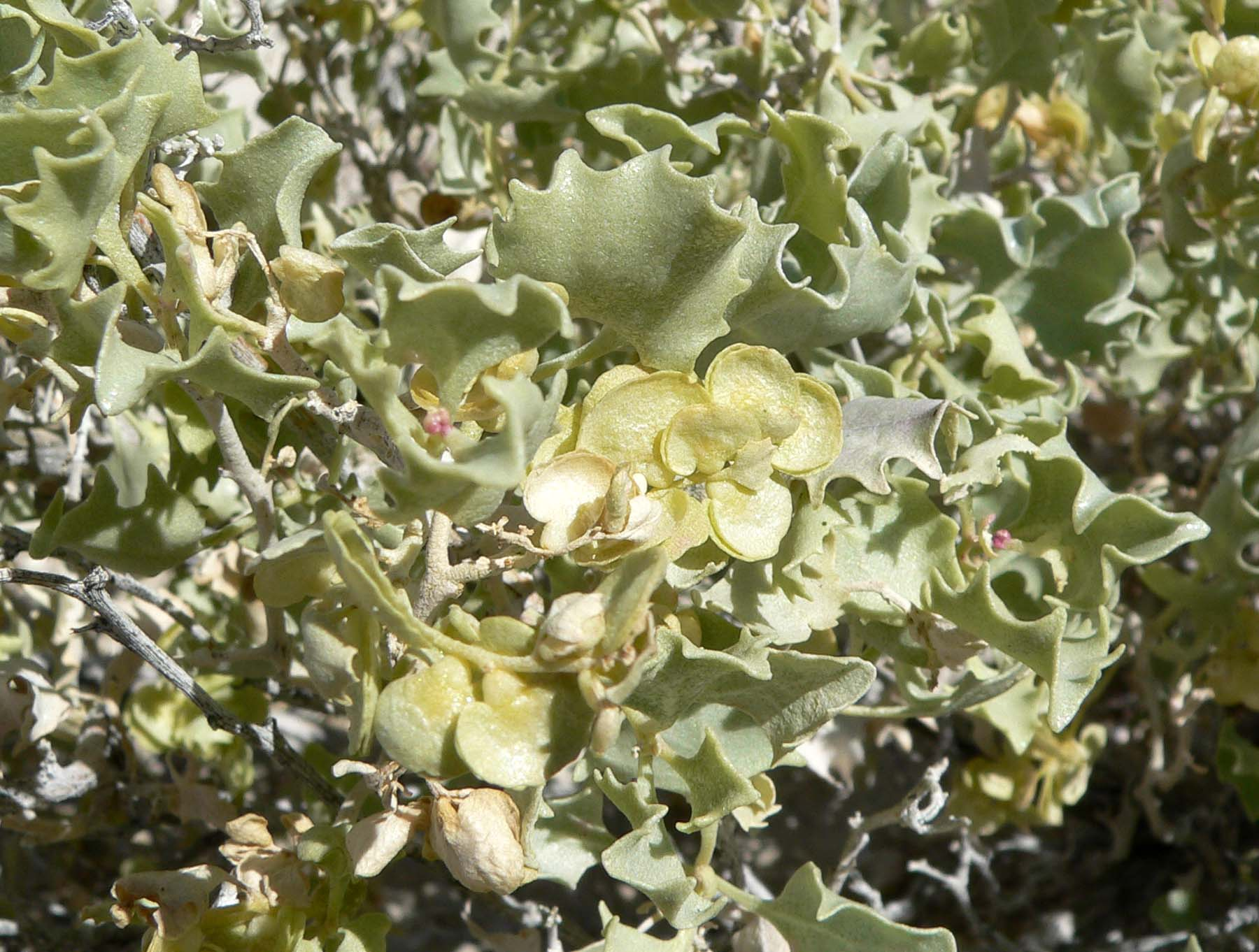 Photo of Atriplex hymenelytra (desert holly) near Shoshone, California